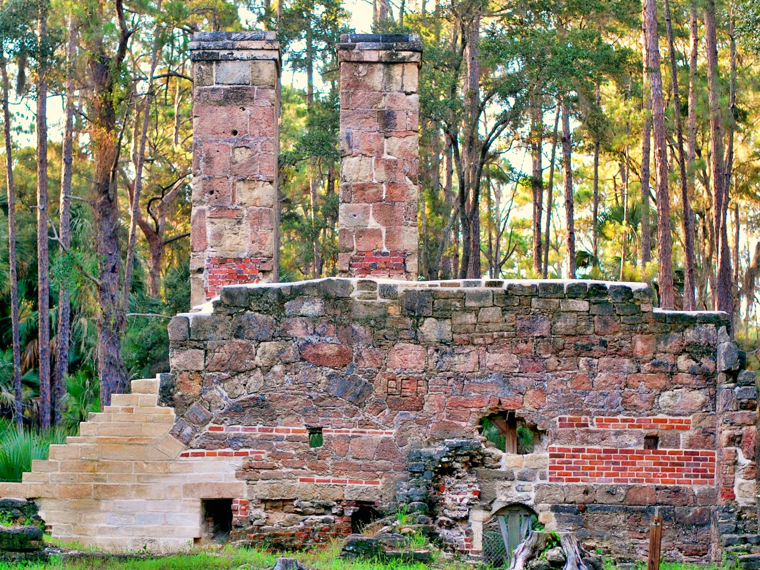 Dummett Sugar Mill Ormond Beach Florida1825